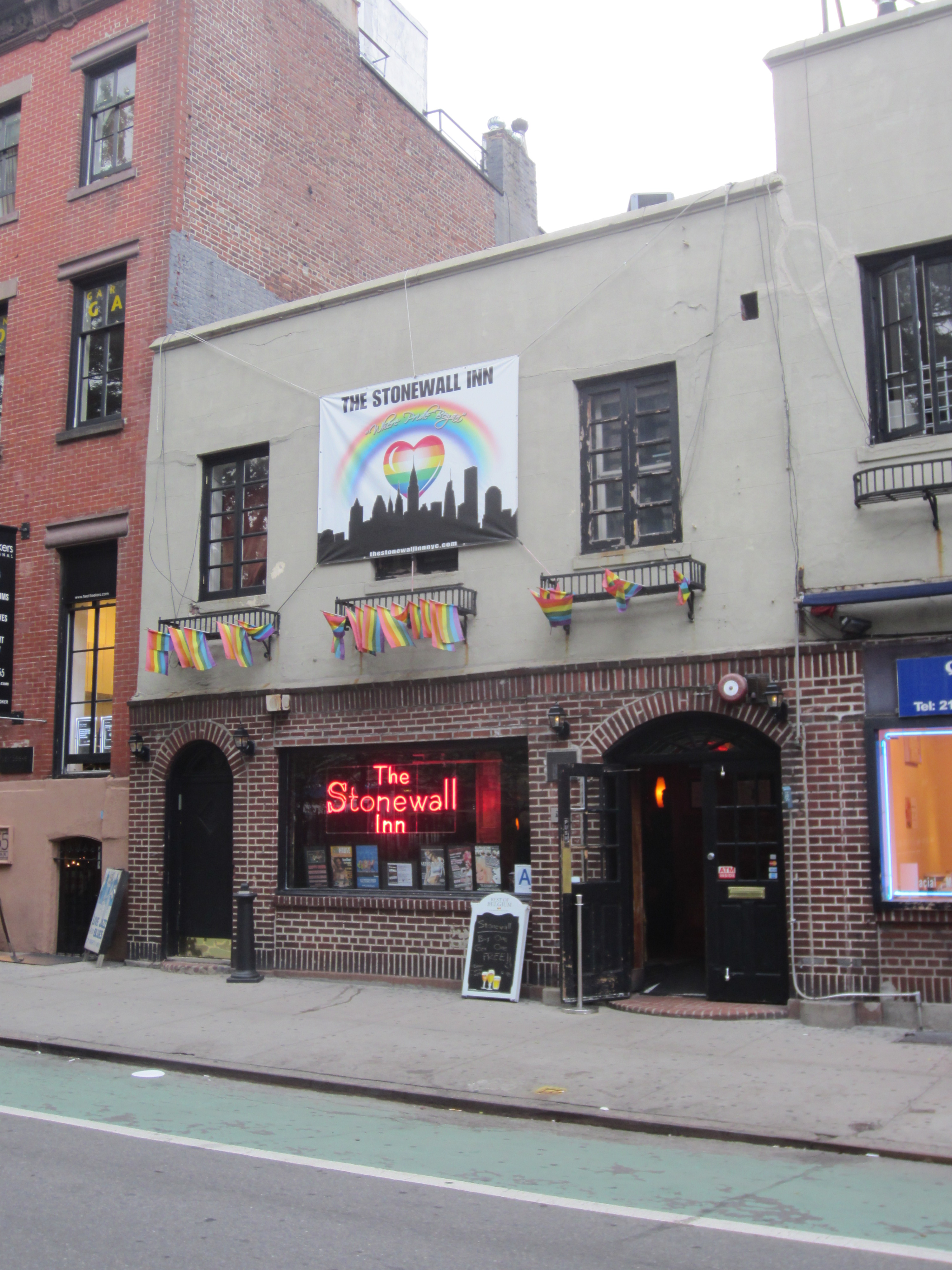 Stonewall Inn, NYC (May 2014)